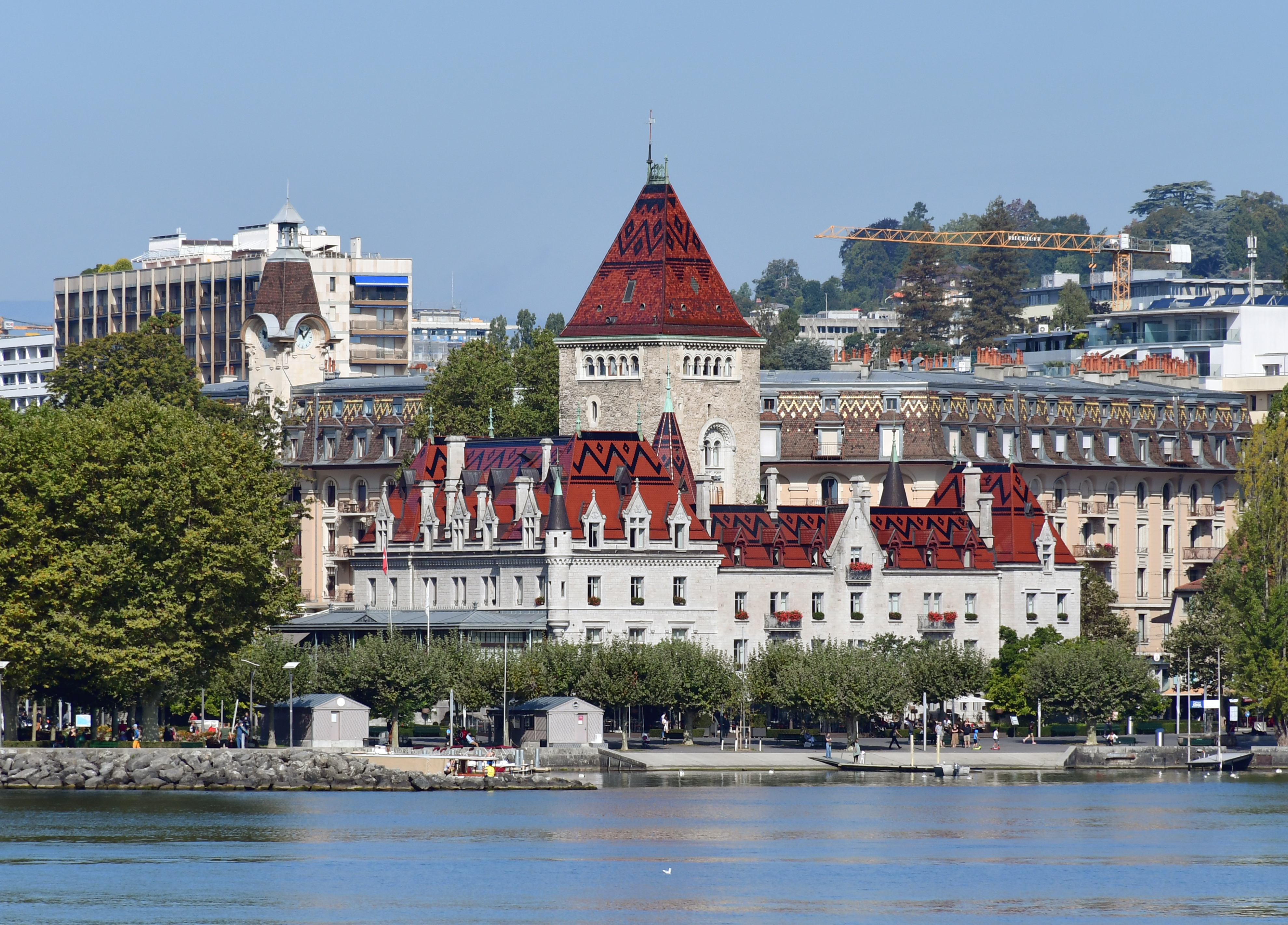 The Château d'Ouchy (Castle of Ouchy), 4 stars hotel in the district of Ouchy, in Lausanne (Switzerland), seen from the lake Geneva.